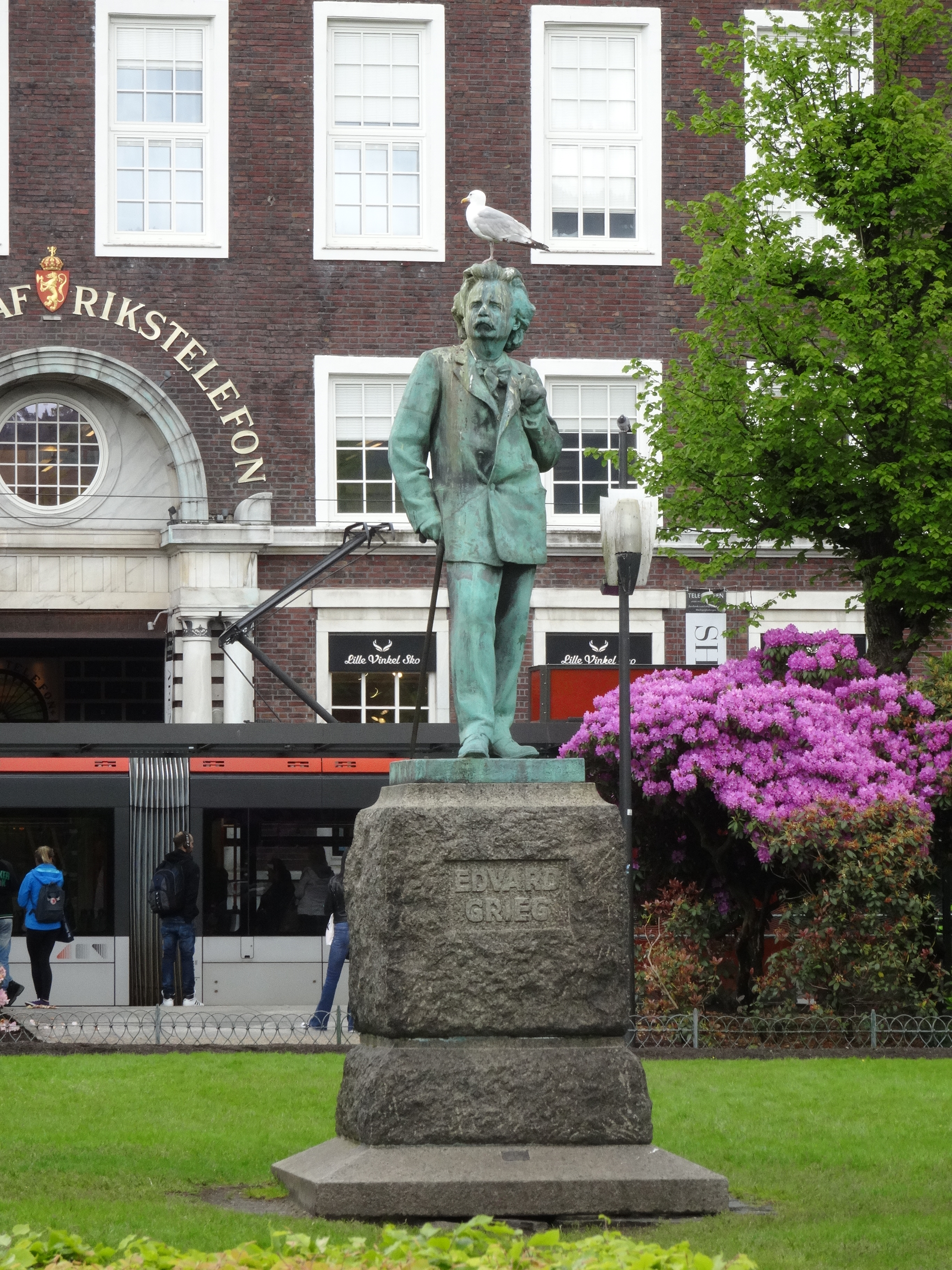 Edvard Grieg with a seagull